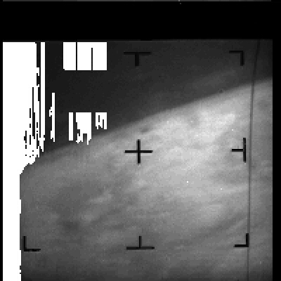 First Mariner IV picture - processed, size x 2